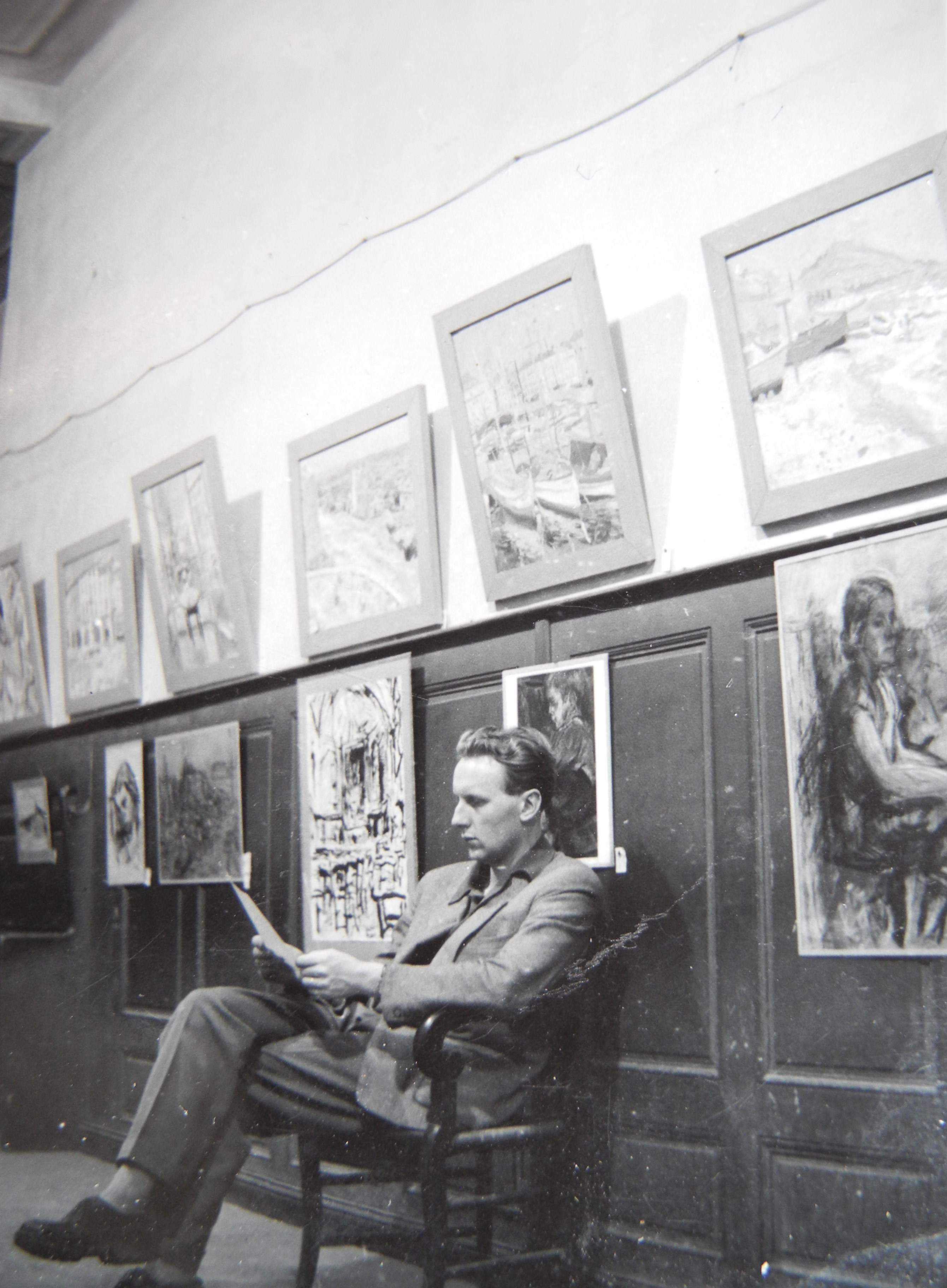 Dutch painter Rudolph Polder in an exhibition room in Bagnols-sur-Cèze (France) in September 1953.